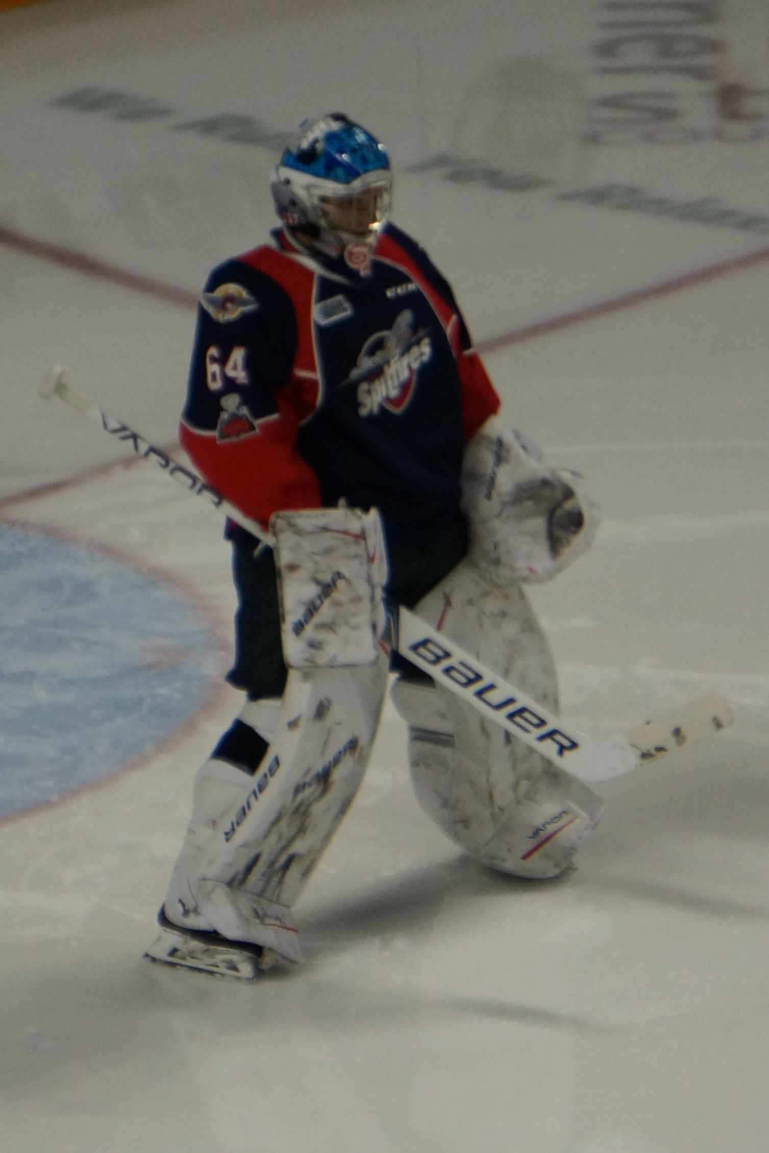 Michael DiPietro playing for the Windsor Spitfires against the Kitchener Rangers in Kitchener on November 10, 2017.